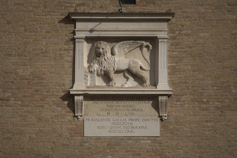 Lion of san Mark walled on the medieval tower "Pretoria" in Crema (Italy)